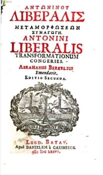 Antoninus Liberalis Transformationum congeries, 1676, first page